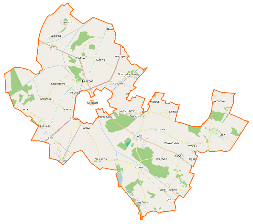 Map of Gmina Kościan, Poland This map of Kościan (gmina wiejska) was created from OpenStreetMap project data, collected by the community. This map may be incomplete, and may contain errors. Don't rely solely on it for navigation. Border coordinates52.174816.5163←↕→16.871551.9815